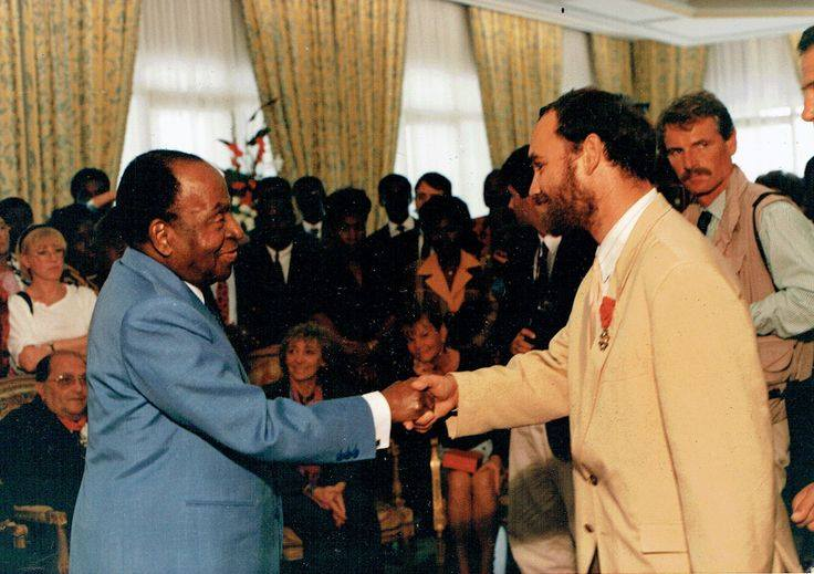 Félix Houphouët-Boigny awarding the Legion of Honour to Eric Bonte in 1989 for his stained glass work in the Basilica